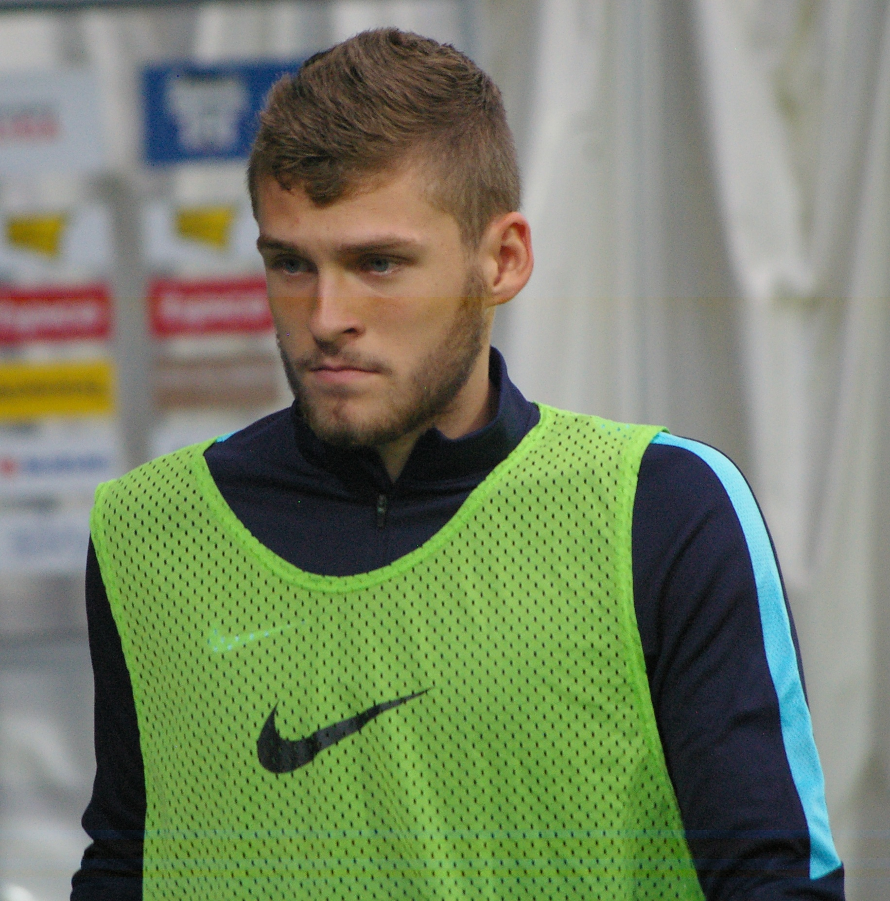 league match 10th round Austria 2nd league